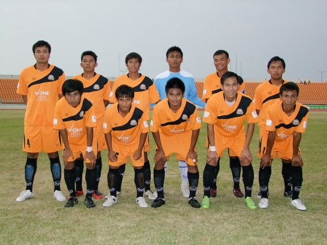 Fans of Nakhon Ratchasima FC